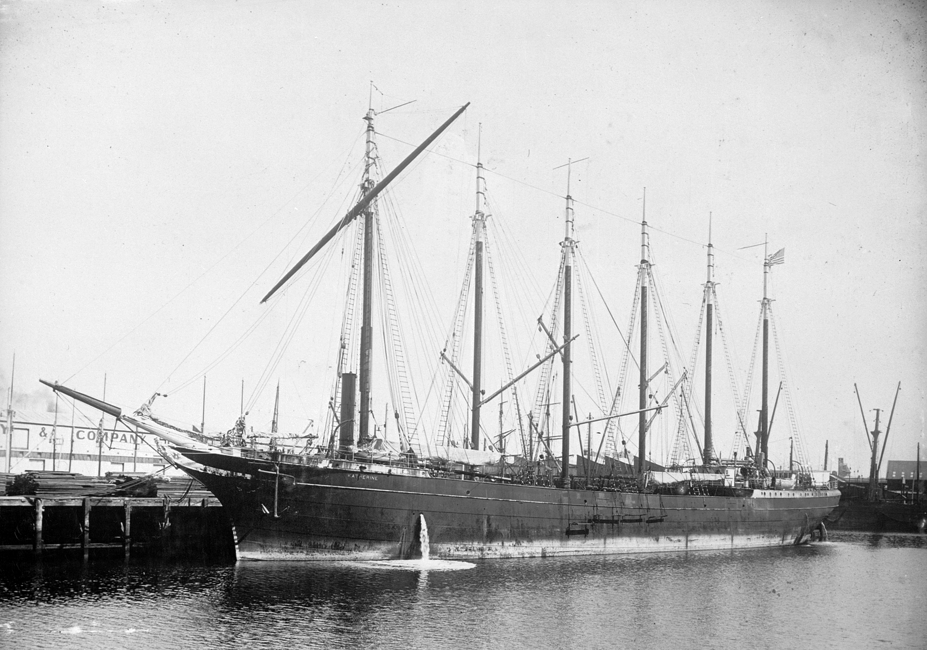 Original caption: “KATHERINE. Six masted schooner at wharf.”